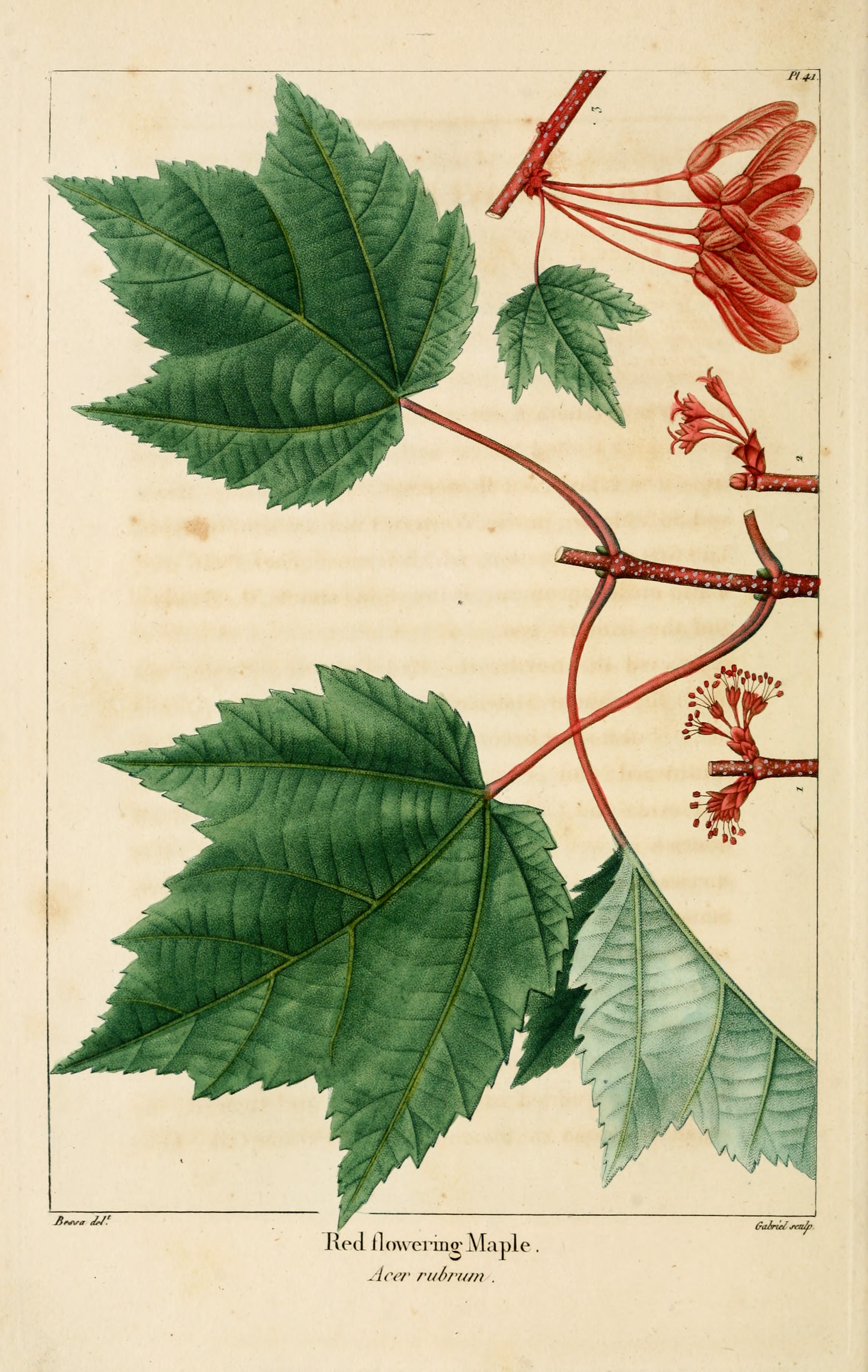 Plate 41 from The North American Sylva: Acer rubrum. (Original caption: Red Flowering Maple. Acer rubrum.)